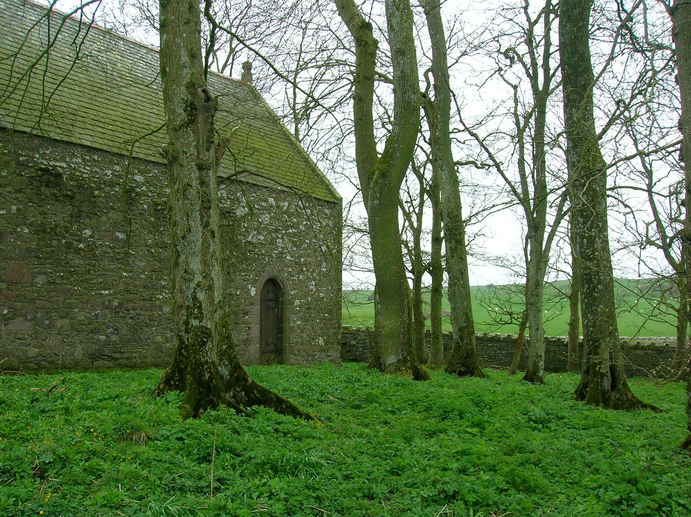 Cruggleton Church - south side. Galloway, Dumfries and Galloway, Scotland